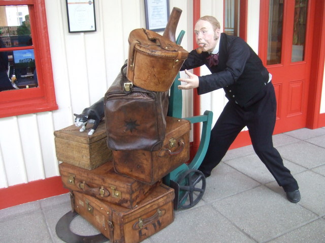 The Royal baggage In the exhibition at Ballater station.